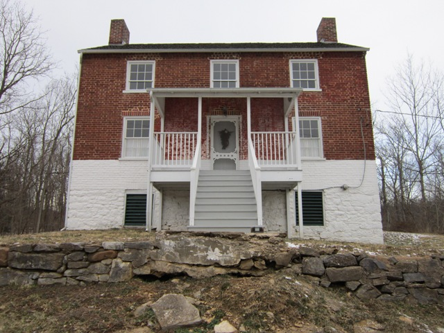 Lockhouse at Lock 49, on the Chesapeake and Ohio Canal, at four locks.